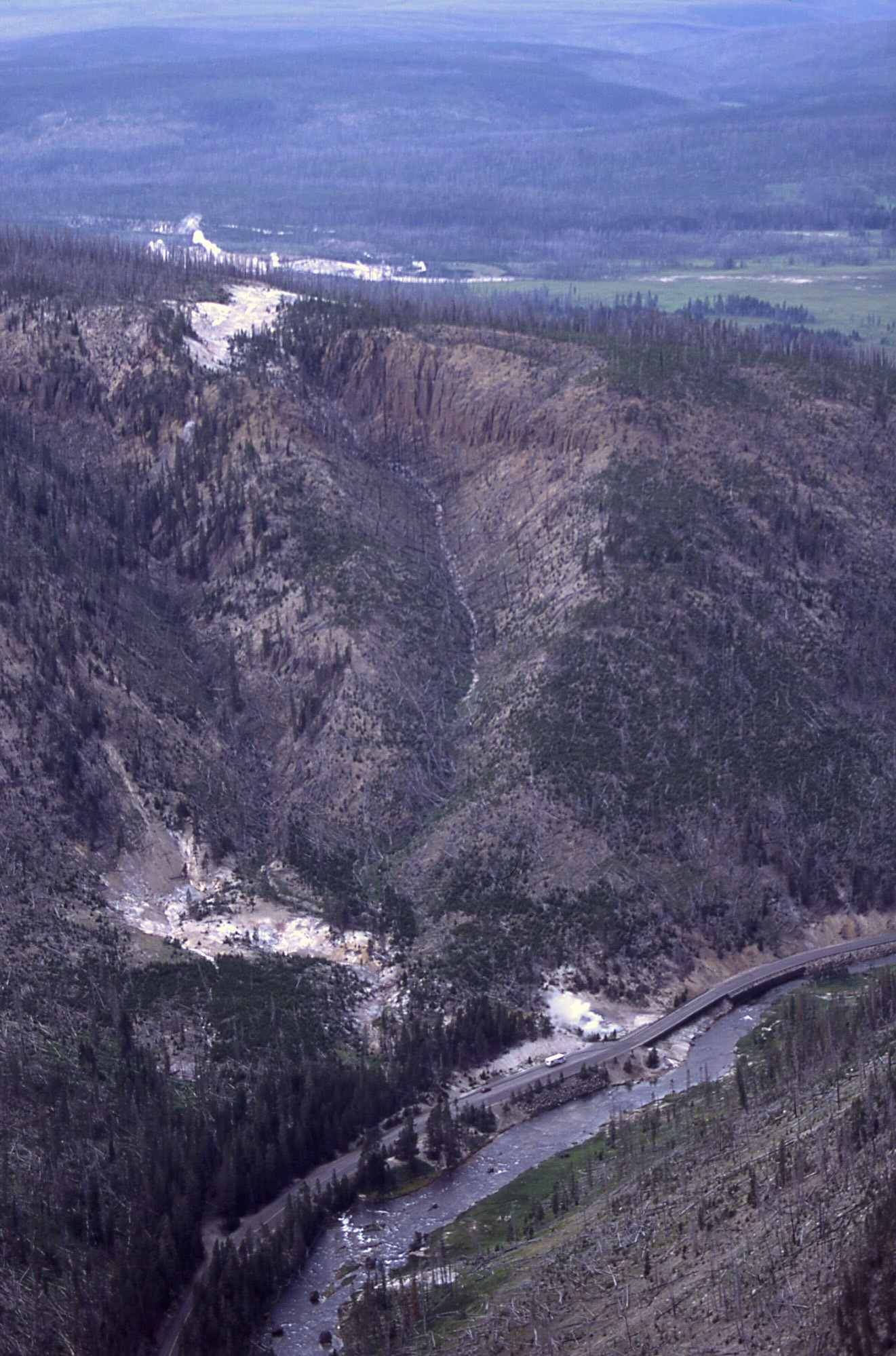 Aerial view of Beryl Spring and Monument Geyser Basin, Gibbon Geyser Basin, Yellowstone National Park, Wyoming